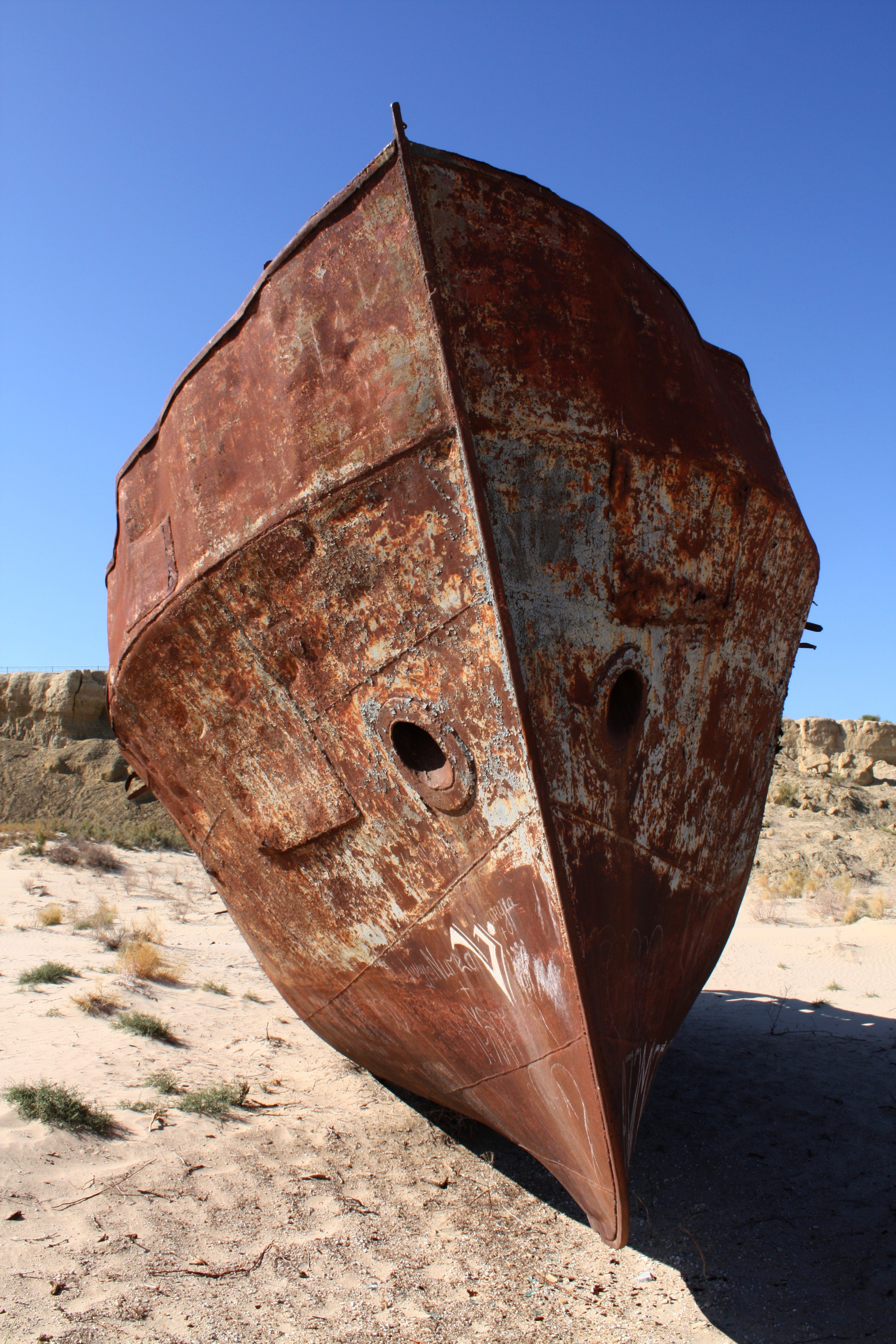 Rusty boat in Moynaq (Karakalpakistan, Uzbekistan). Consequence of the disappearance of the Aral Sea.